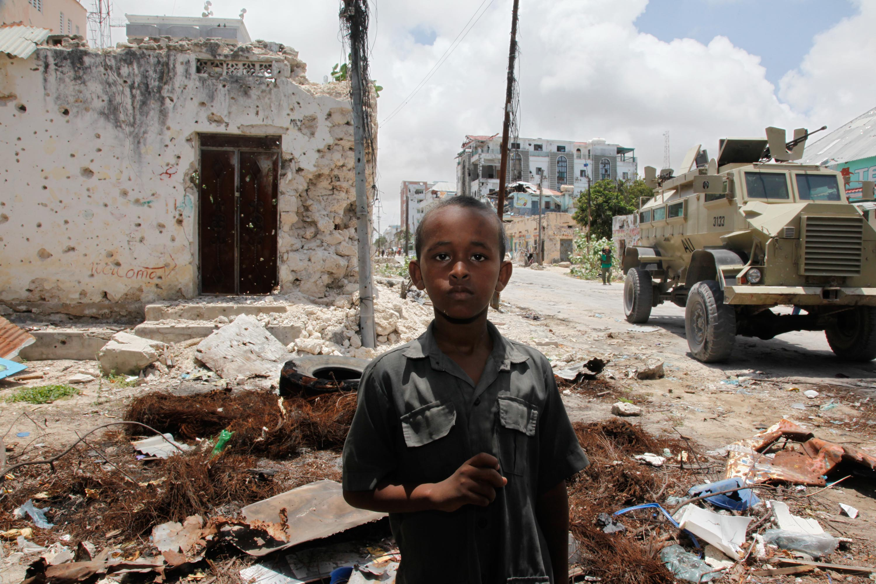 08/09/2011 - Bakaara Market, Mogadishu, Somalia - Life is returning to Bakaara Market, the key economic hub of Mogadishu, after the withdrawal of Al-Shabaab from the capital on the 6th August 2011. PRESS HANDOUT - AU/UN IST/ANTHONY HUNT